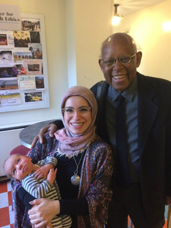 Here Mona is pictured with the late James Hal Cone, with whom she studied with at Union Theological Seminary where she received her MA in Christian Ethics. In her arms is her second son Rumi with whom she was pregnant during both her first year of seminary and her music video "Hijabi(Wrap My Hijab)"